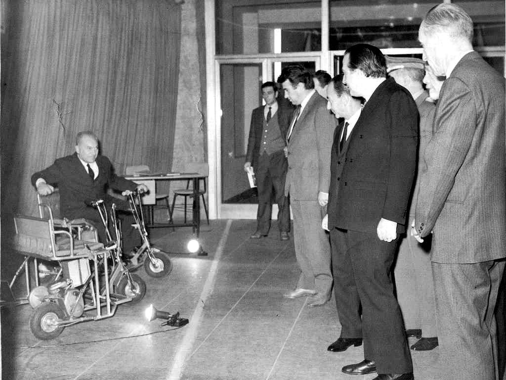 Di Blasi DIBLA7 at the Turin Auto Salon 1968